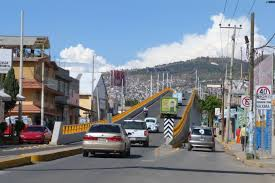 Puente Blanco en Valle de Chalco